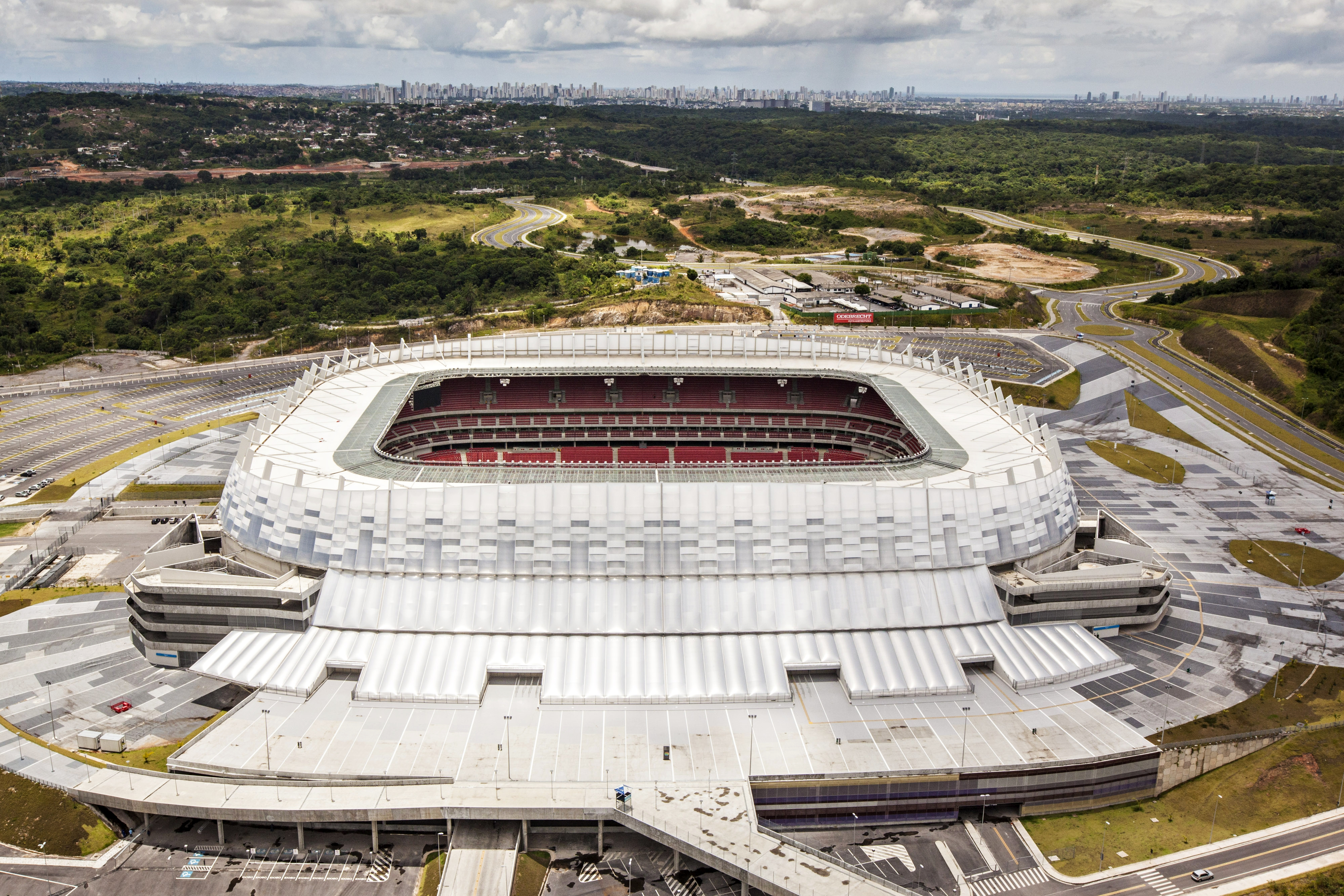 Itaipava Arena Pernambuco - Recife, Pernambuco, Brazil